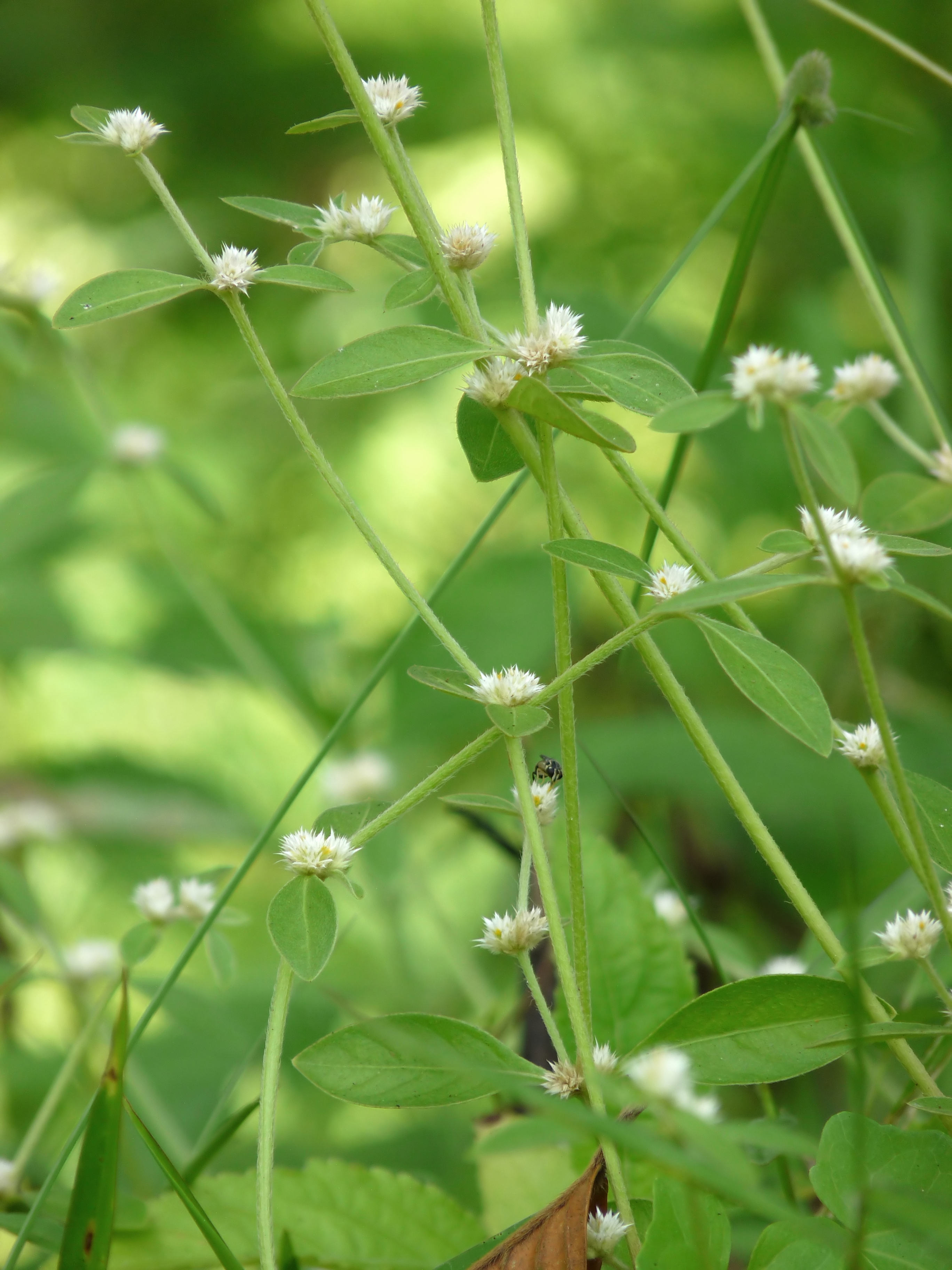 Alternanthera sessilis, Sessile Joyweed, Dwarf copperleaf, Joyweed, is a perennial herb in Amaranthaceae family, often found in and near ponds, canals and reservoirs. It prefers places with constant or periodically high humidity and so may be found in swamps, shallow ditches, and fallow rice fields. A much branched prostrate herb, branches often purplish, frequently rooting at the lower nodes; leaves simple, opposite, somewhat fleshy, lanceolate, oblanceolate or linear-oblong, obtuse or subacute, sometimes obscurely denticulate, glabrous, shortly petiolate; flowers small, white, in axillary clusters; fruits compressed obcordate utricles, seeds suborbicular.